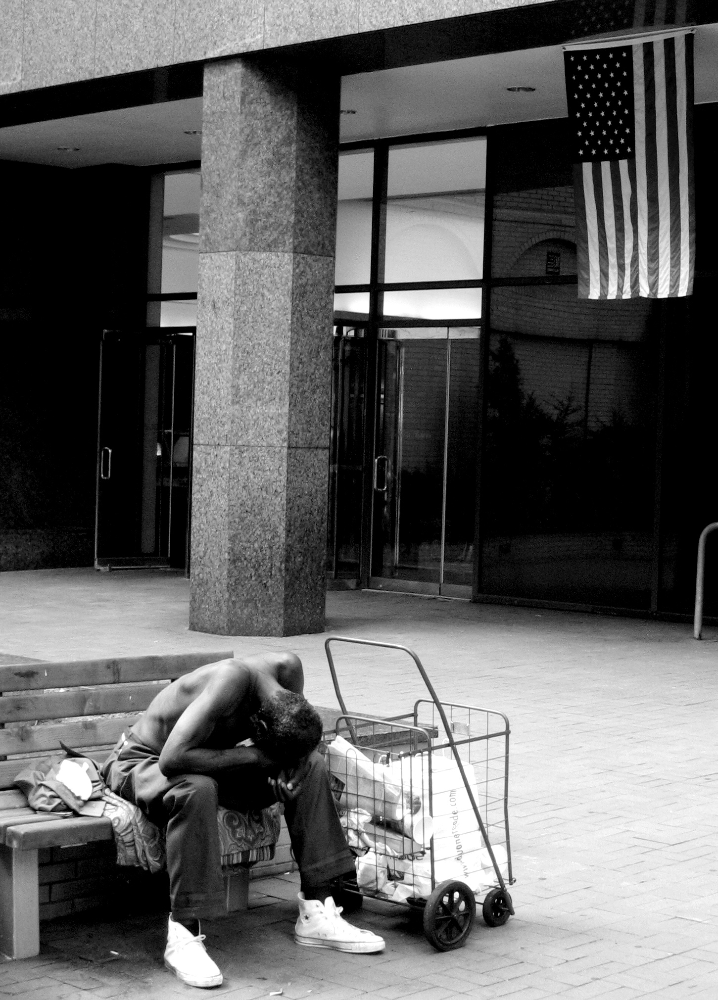 A homeless man outside the outside the United Nations building in New York with the American flag in the background.